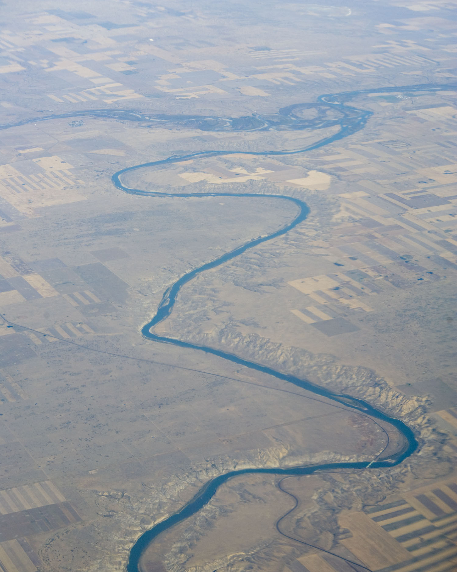 South Saskatchewan River at Empress, Alberta, where the Red Deer River confluences into it.